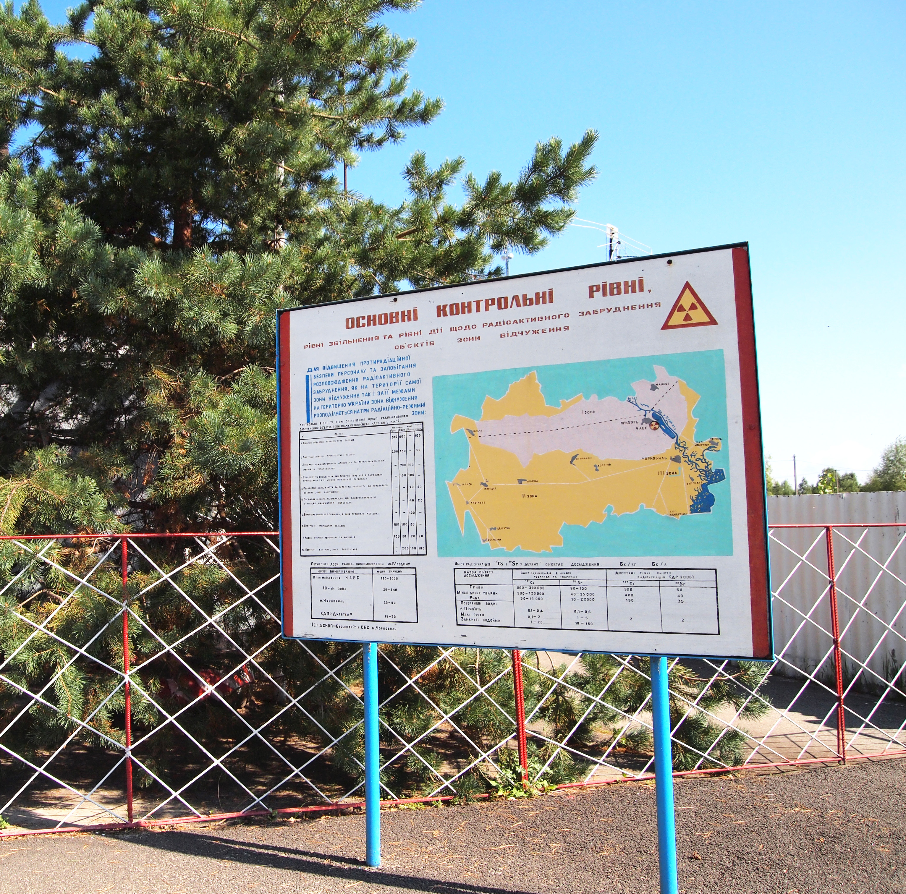 Sign near the control point of Chernobyl Exclusion Zone, Ukraine. This photograph was taken with a Olympus E-PL1.